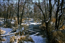 Marais de péronne